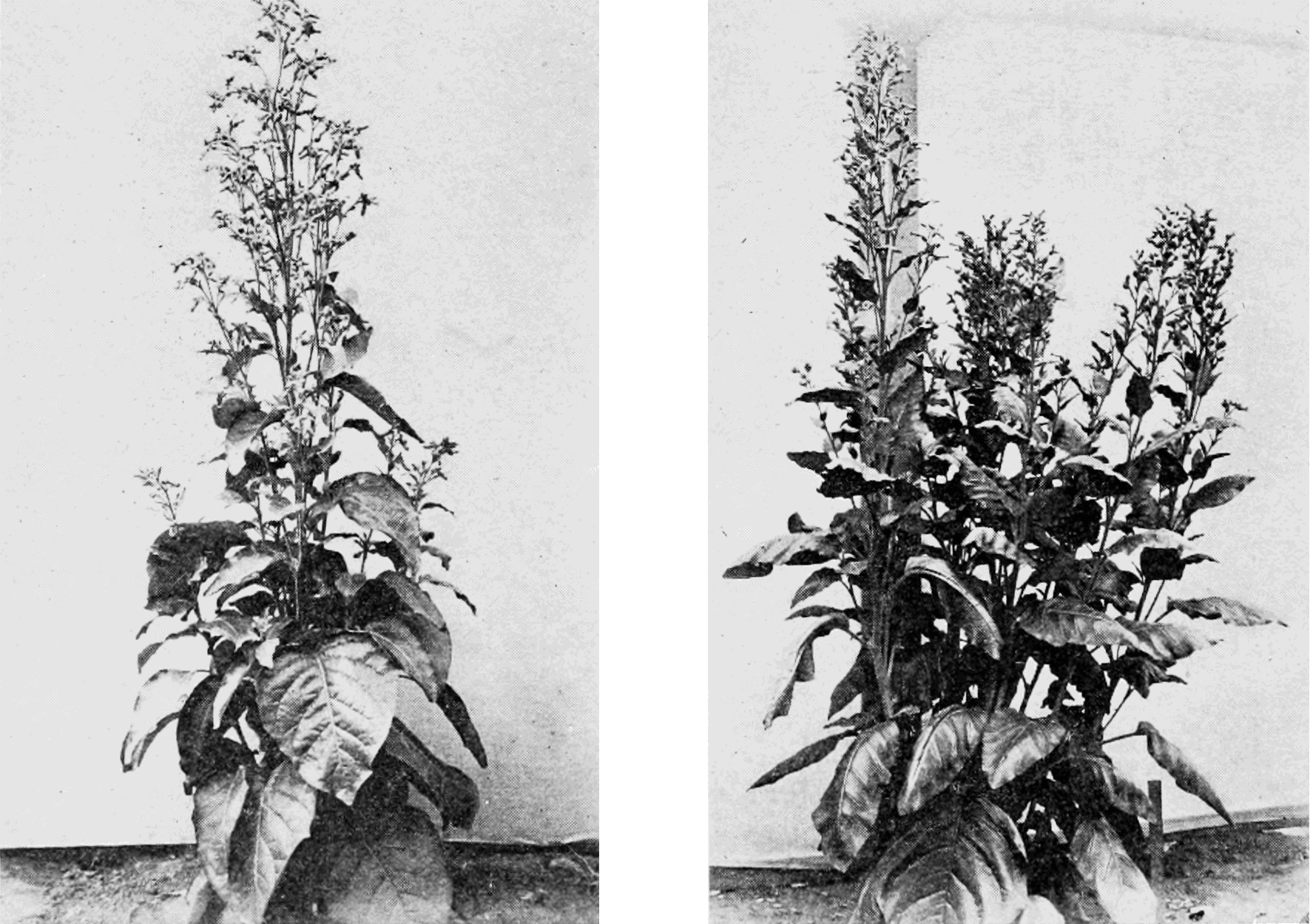 Size characteristics of second generation hybrid tobacco plants